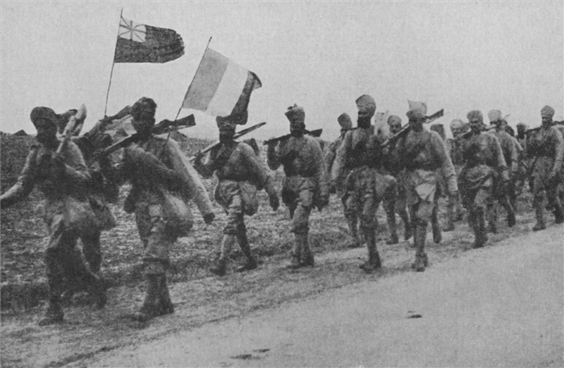 Indian reinforcements who fought at Givenchy in December 1914, during the First World War